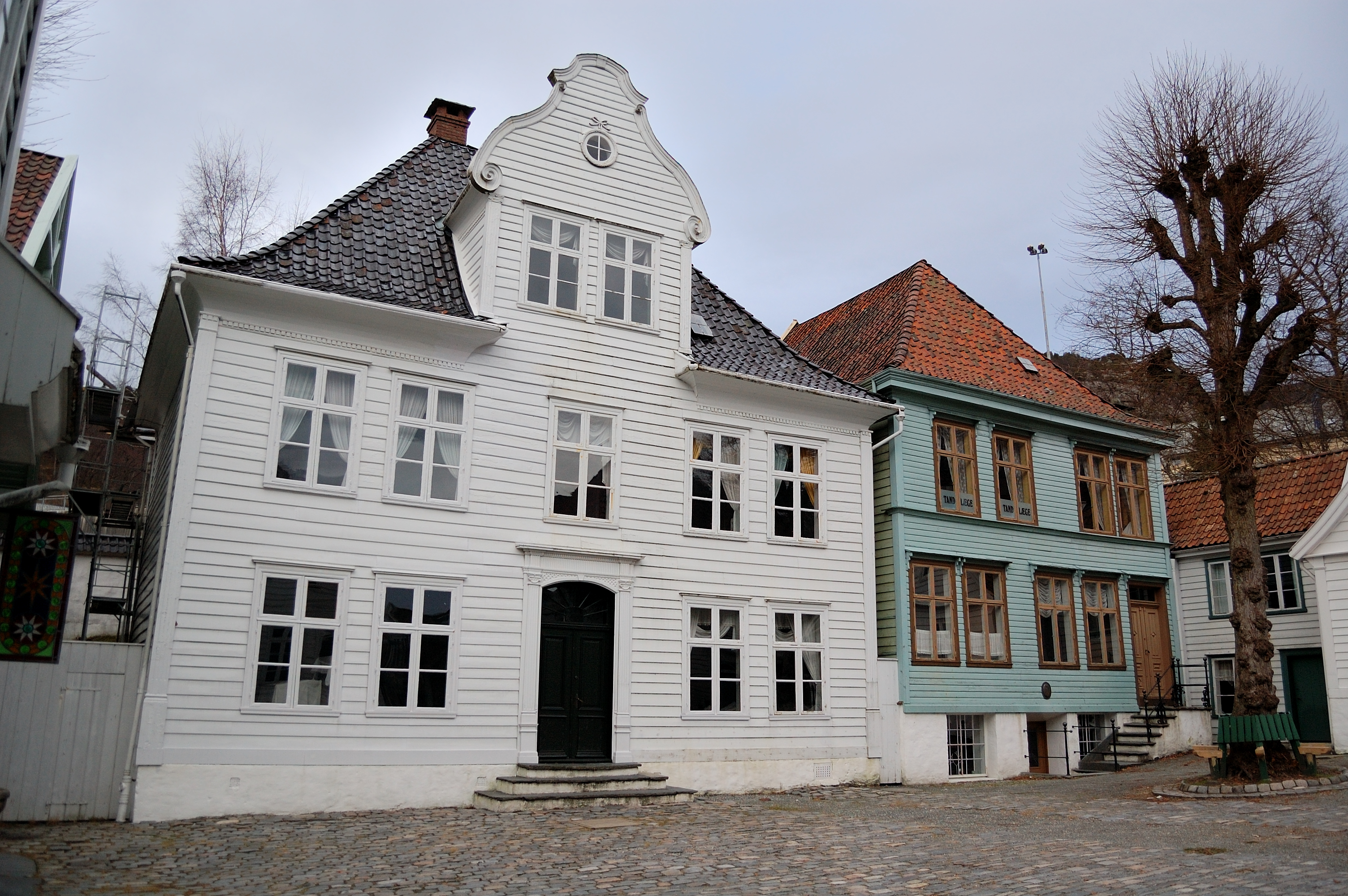 Gamle Bergen - open air museum in Bergen, Norway.